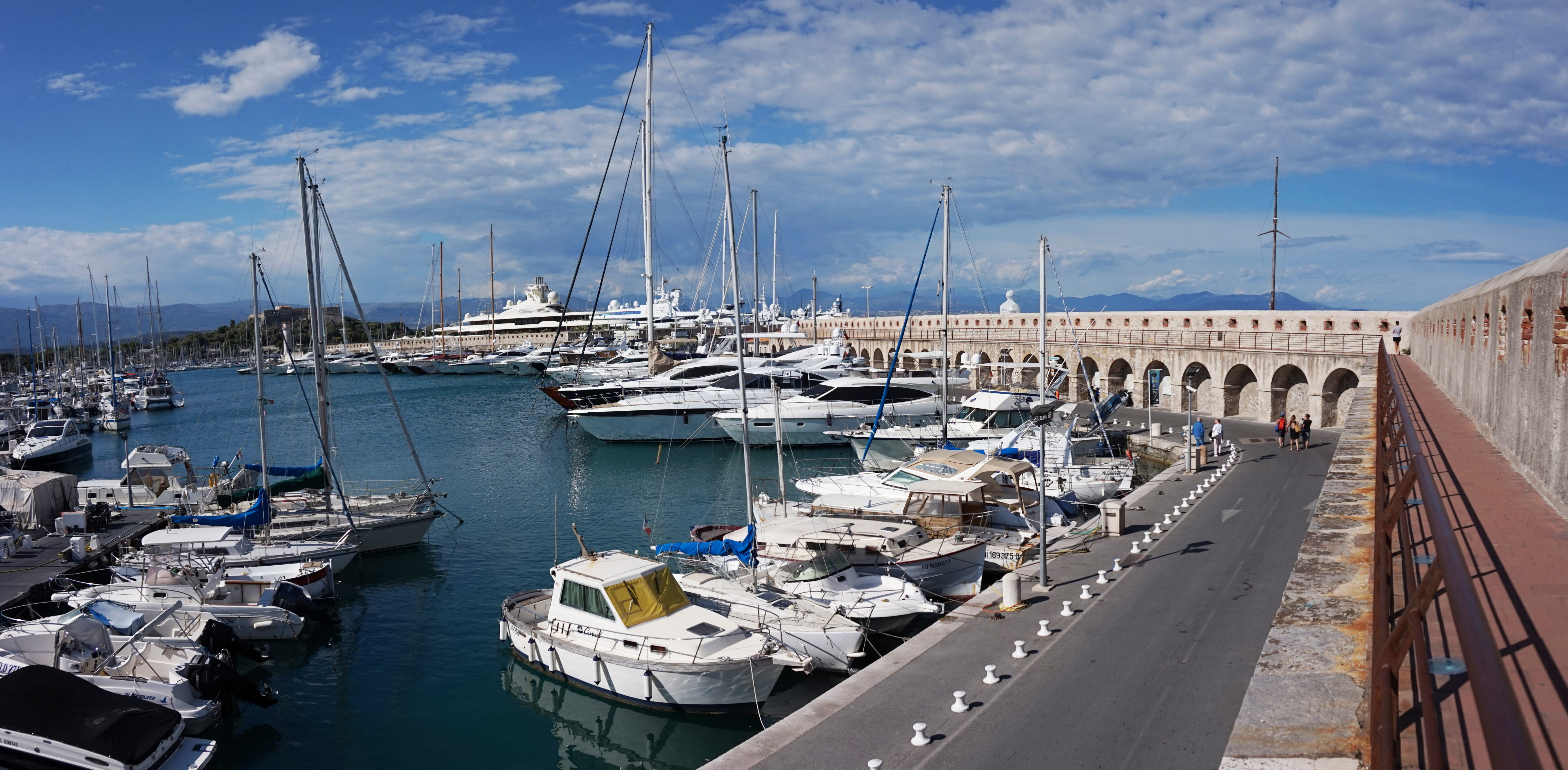 A port and the street Quai Henri Rambaud in Antibes. This photograph was taken with a Sony Alpha a5000.